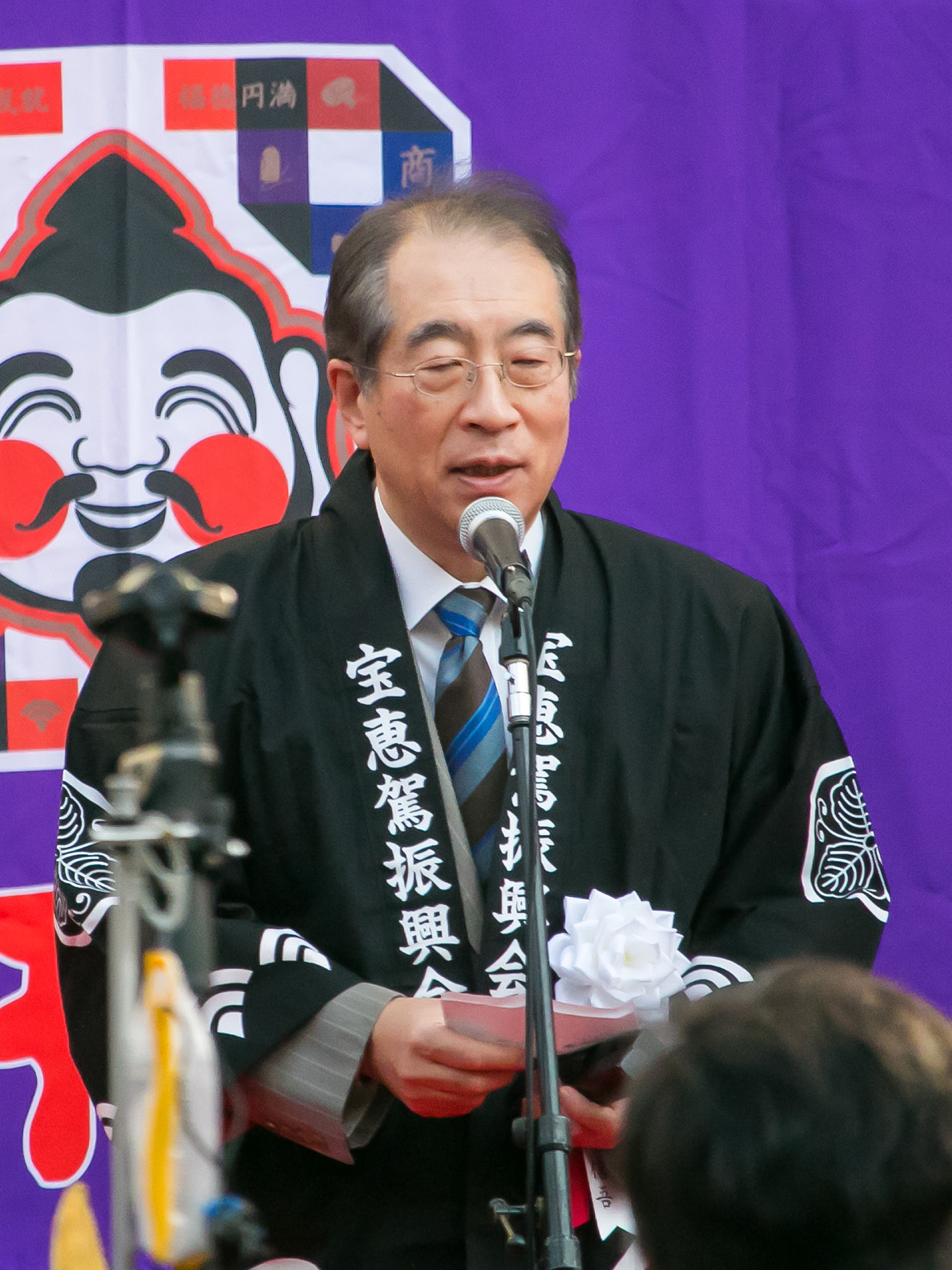 Shingo Torii (Representative Director Vice Chairman of Suntory Holdings Limited).